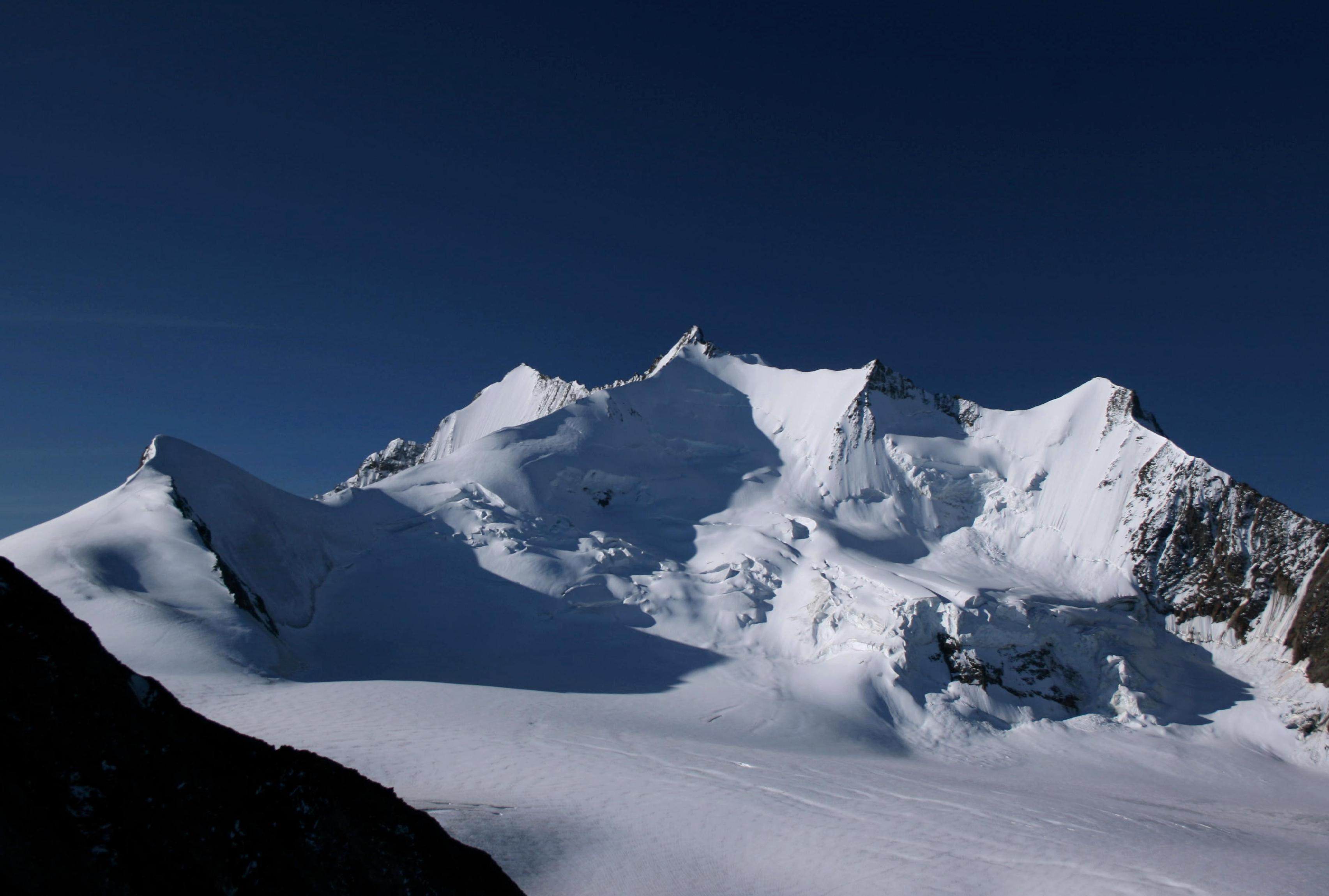 Riedgletscher and Nadelgrat: Ulrichshorn, Lenzspitze, Nadelhorn, Stecknadelhorn, Hohberghorn